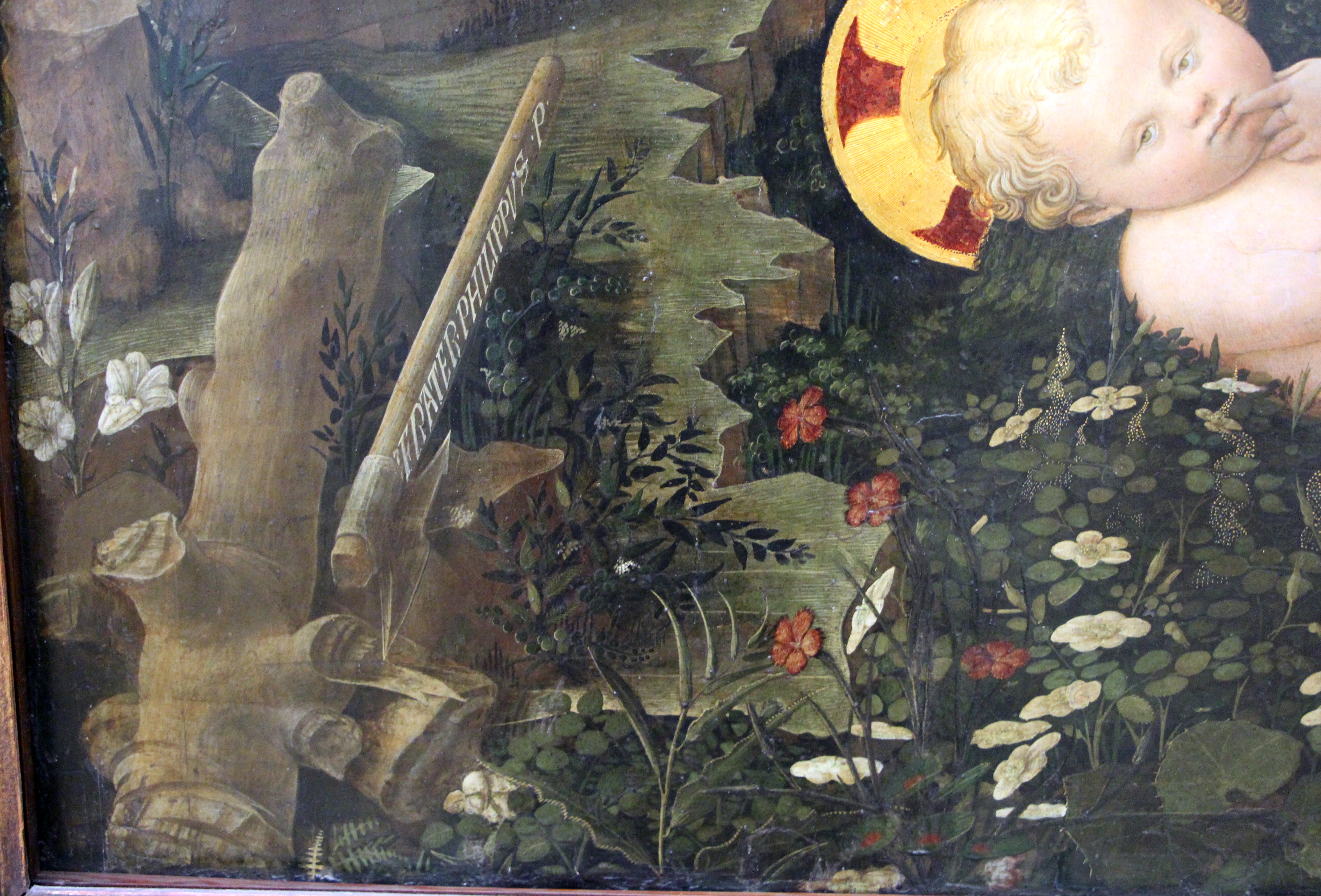 Italian Renaissance paintings in the Gemäldegalerie, Berlin